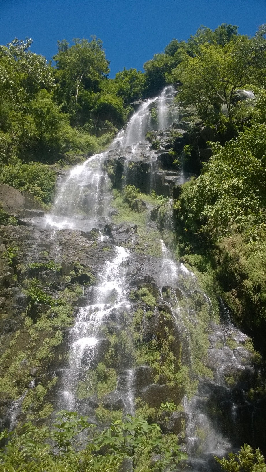 อุทยานแห่งชาติรามคำแหง This is the most beautiful waterfall with height of almost 100 meters in Ramkamhaeng National Park, Sukhothai province, Thailand.